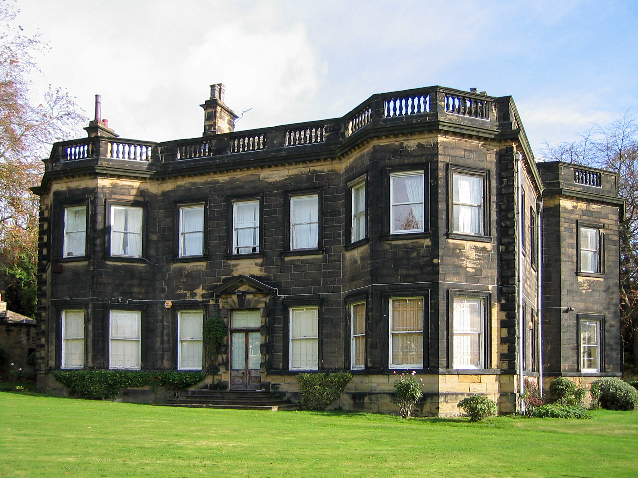 Gledhow Hall, Leeds. A 17th century mansion house